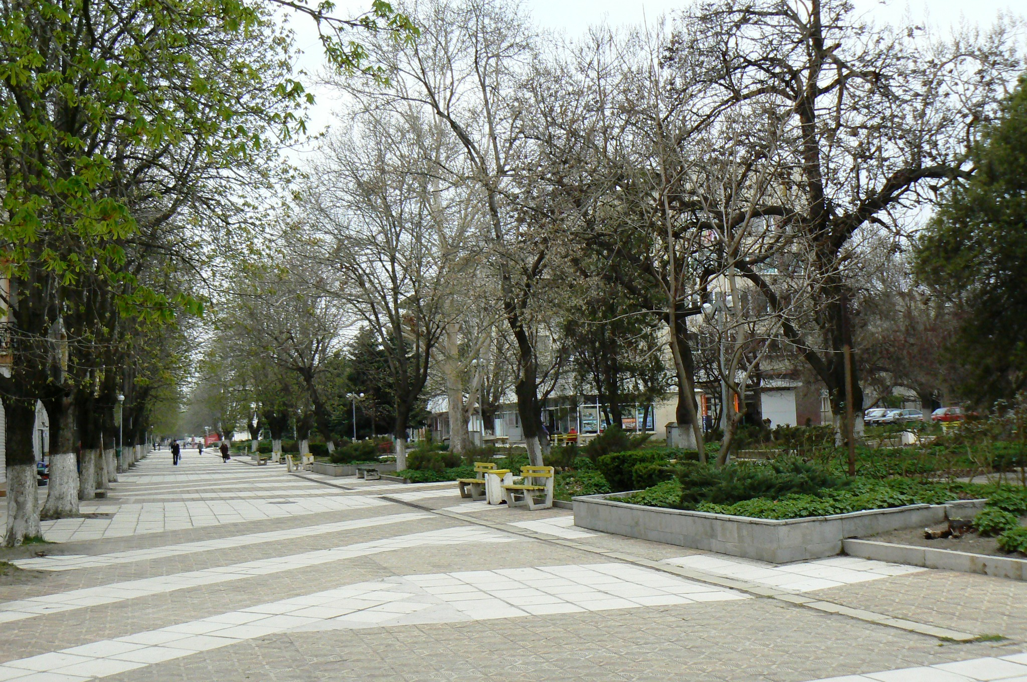 The centre of the town of Kaspichan, Bulgaria